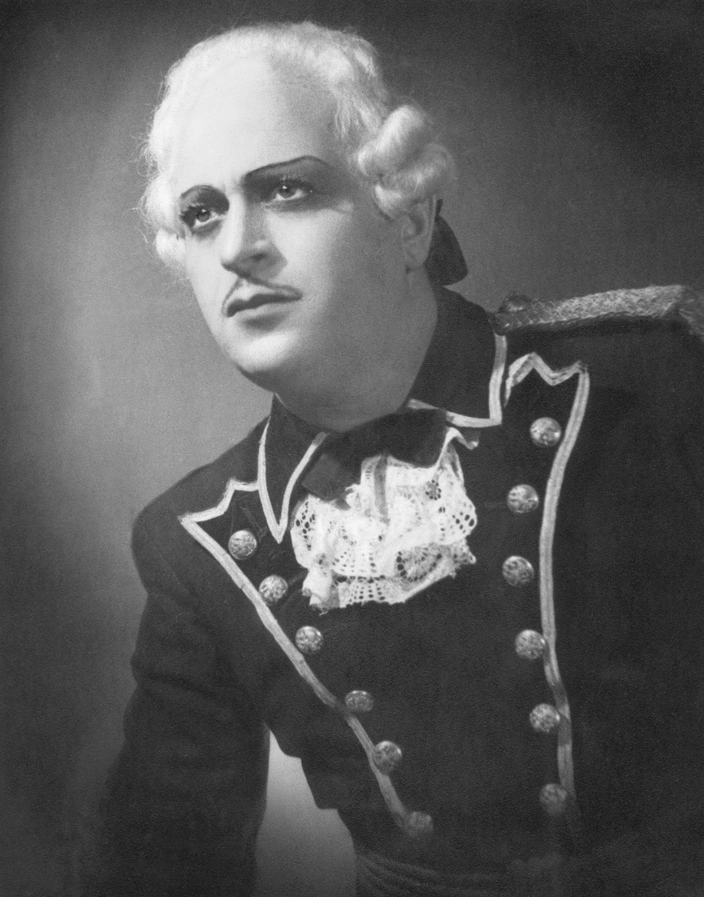 As Herman in the Queen of Spades by Pyotr Ilyich Tchaikovsky.